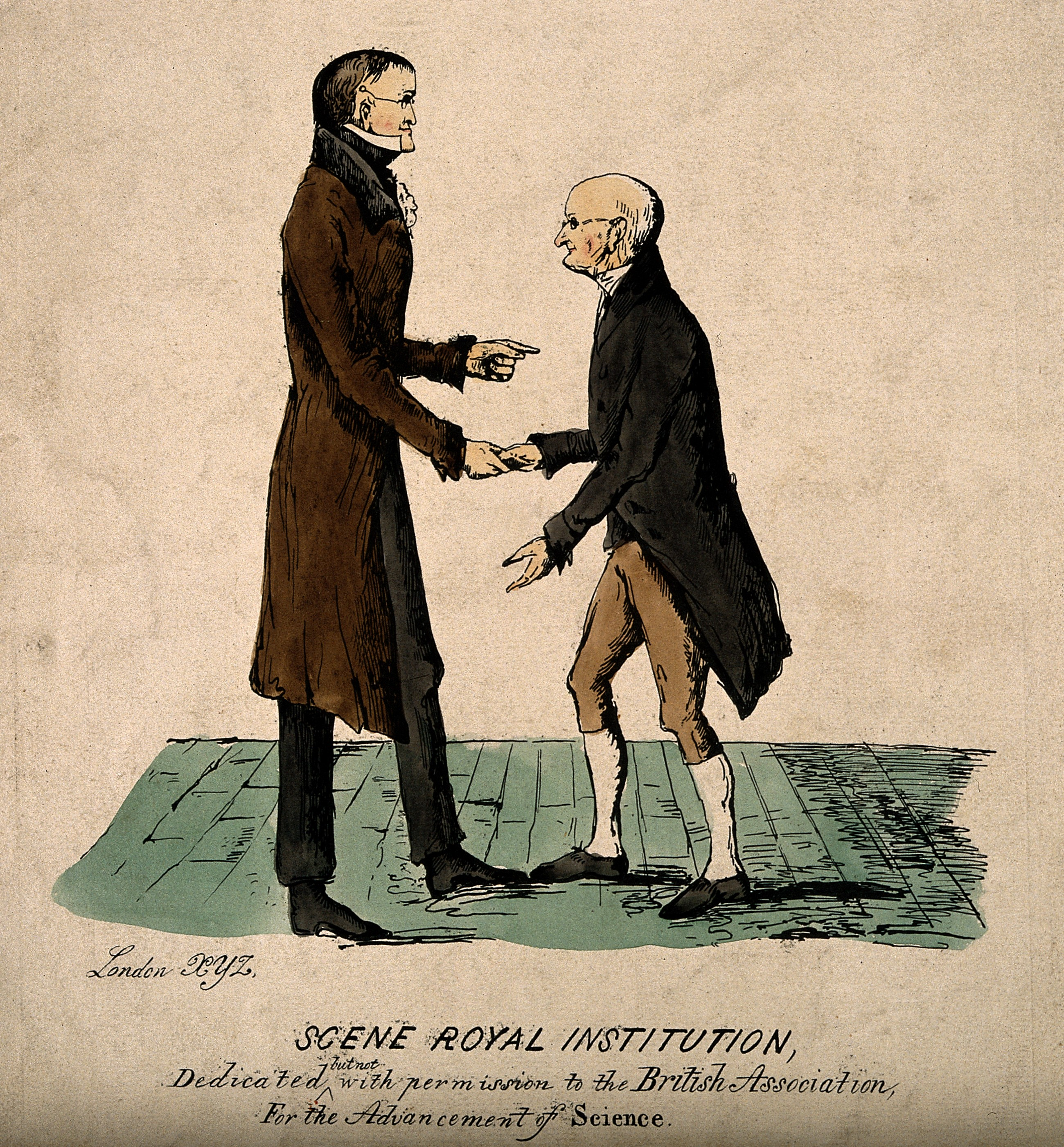 John Dalton (right) shaking hands with Gerrit Moll, 1834, thanking him for defending British science. Coloured etching by Crichton. Iconographic Collections Keywords: John Dalton; British Association for the Advancement of Science.; Gerrit Moll